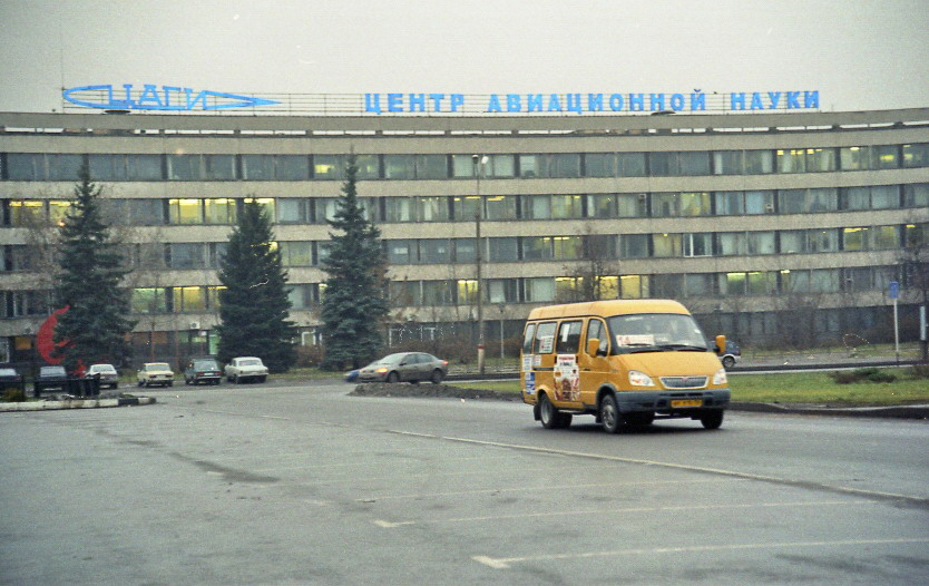 TsAGI, Zhukovskiy